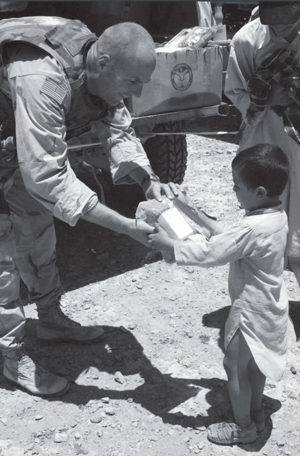 CPT Kevin Kit Parker of the 450th Civil Affairs Battalion hands out a hygiene pack donated by the nongovernment organization (NGO) Healing Hands International Humanitarian Relief to a young boy in Kandahar Province, Afghanistan.